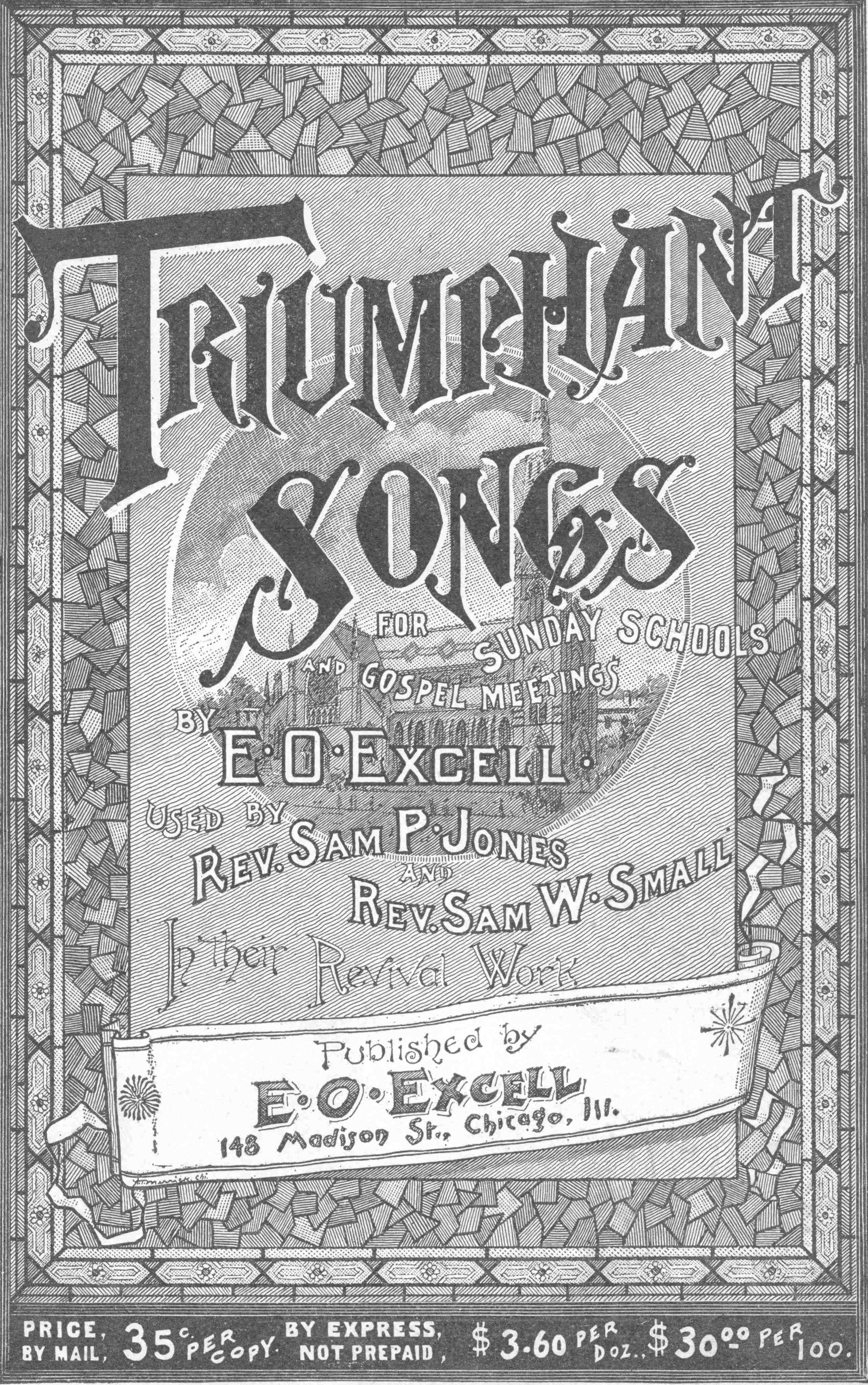 "Triumphant Songs" title page image